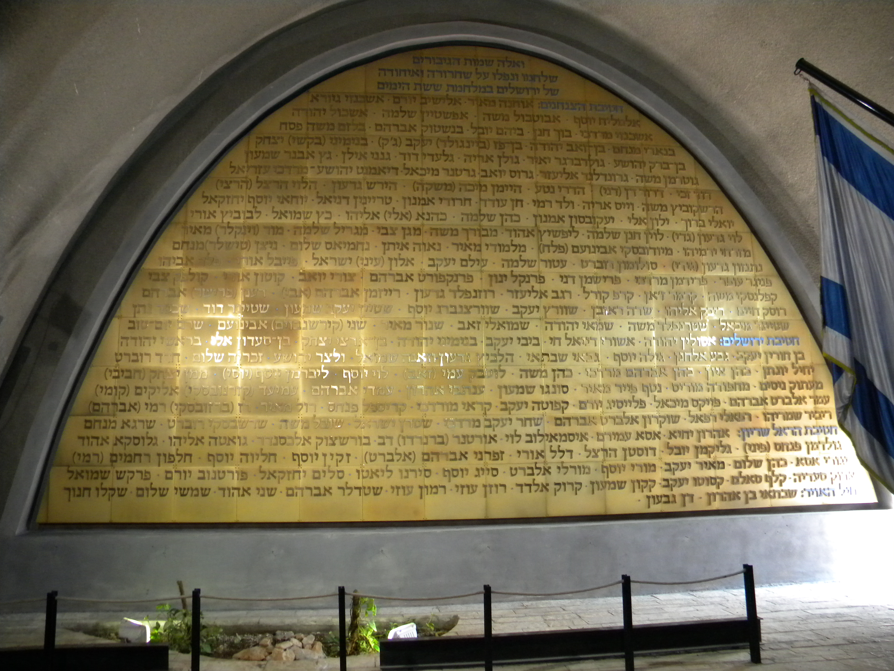 Geography of Israel